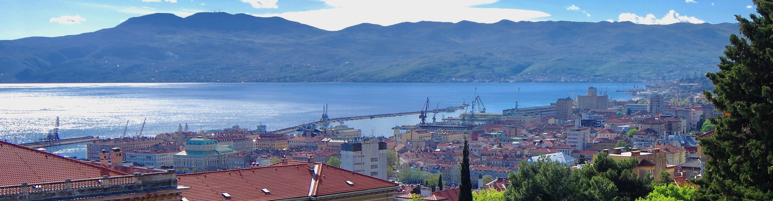 City of Rijeka and Mountain Učka